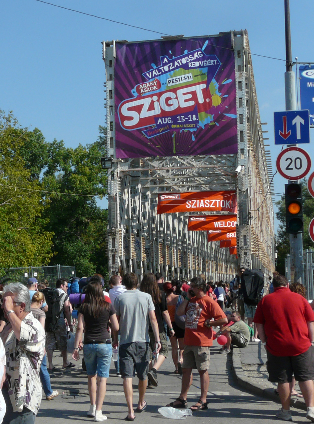 The Sziget Festival, the entrance. (Budapest, 2008)